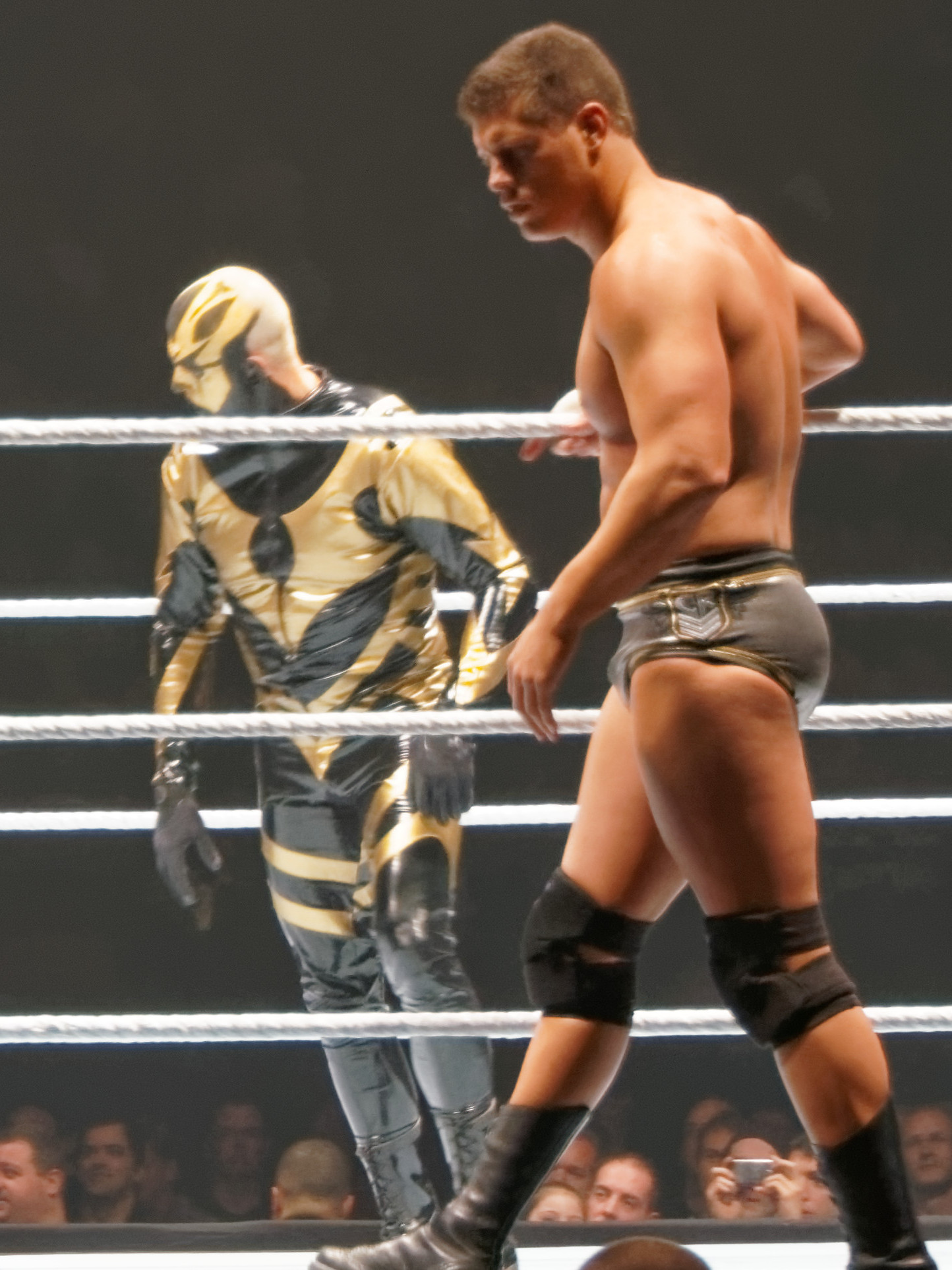 Goldust (left) and Cody Rhodes at a WWE house show on 8 November 2013